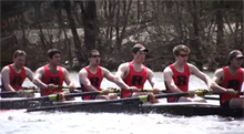 Rutgers Men's Varsity Eight rowing on the Raritain River in New Jersey